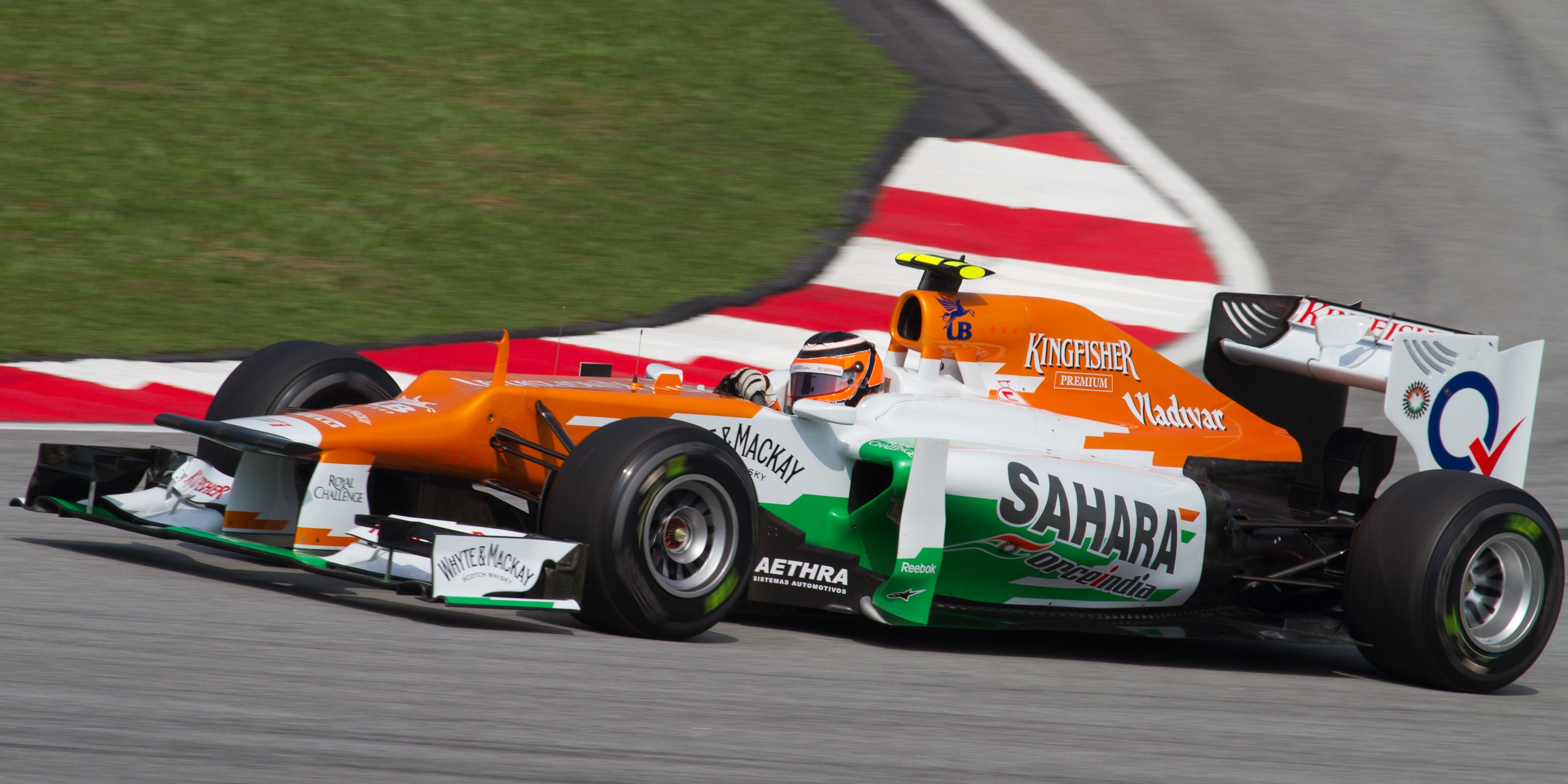 Formula One 2012 Rd.2 Malaysian GP: Nico Hülkenberg (Force India) during the qualify session on Saturday.